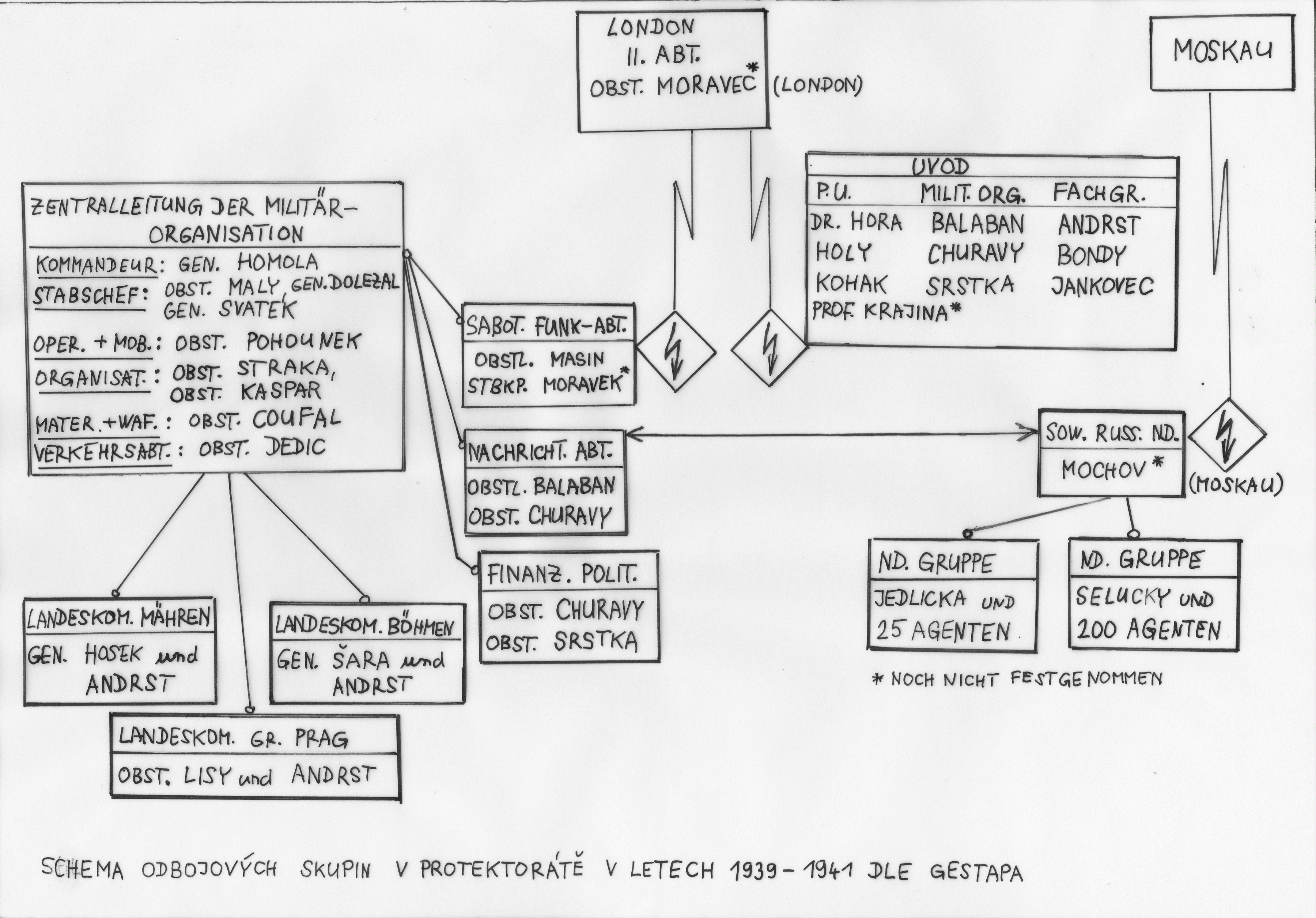 Scheme of activities and personal leadership of some resistance groups in the Protectorate of Bohemia and Moravia between years 1939 and 1941 according to the Gestapo intelligence services. On the base of photocopy of the original semigraphics document was this scheme restored and converted into graphic form by Ing. Mojmír Churavý.